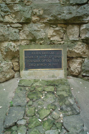 This photo shows the grave of Julien Dubuque contained within the Julien Dubuque Monument. I had taken this photo in June of 2004. The inscription on his marker says "Julien Dubuque. Miner of Mines of Spain. Founder of Our City. Died March 24, 1810."